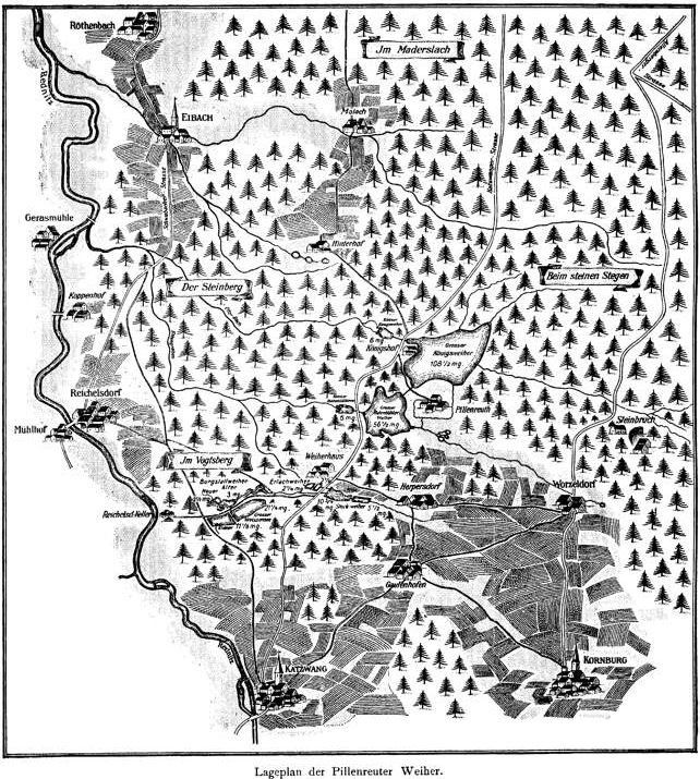 Map of the bishop of Pillenreuther's lands, 1450; Lageplan der Pillenreuther Weiher